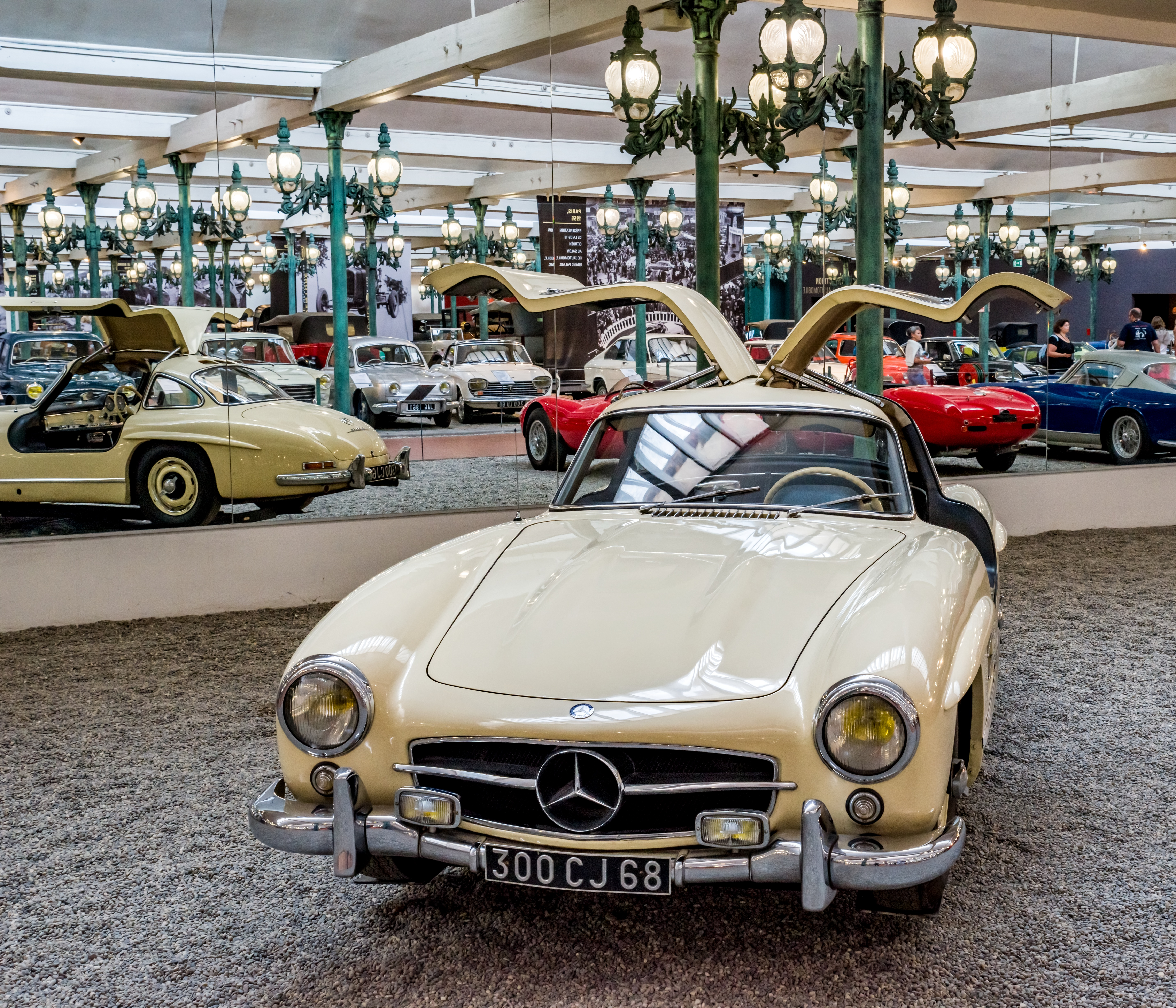 pictures from the Cité de l’Automobile – Musée National – Collection Schlump in Mulhouse, France ptictures from the 10. may 2018